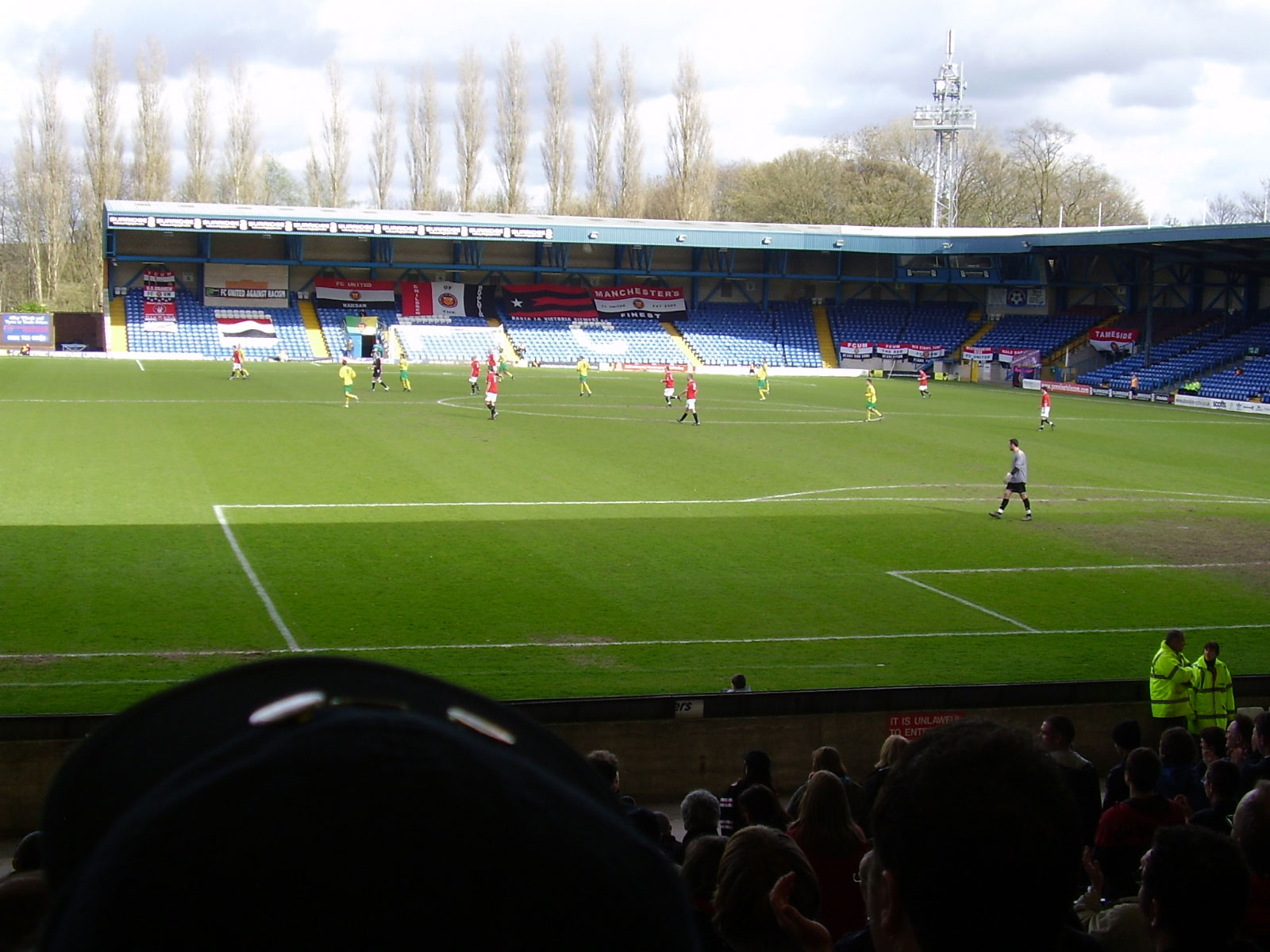 On MRE, Gigg Lane